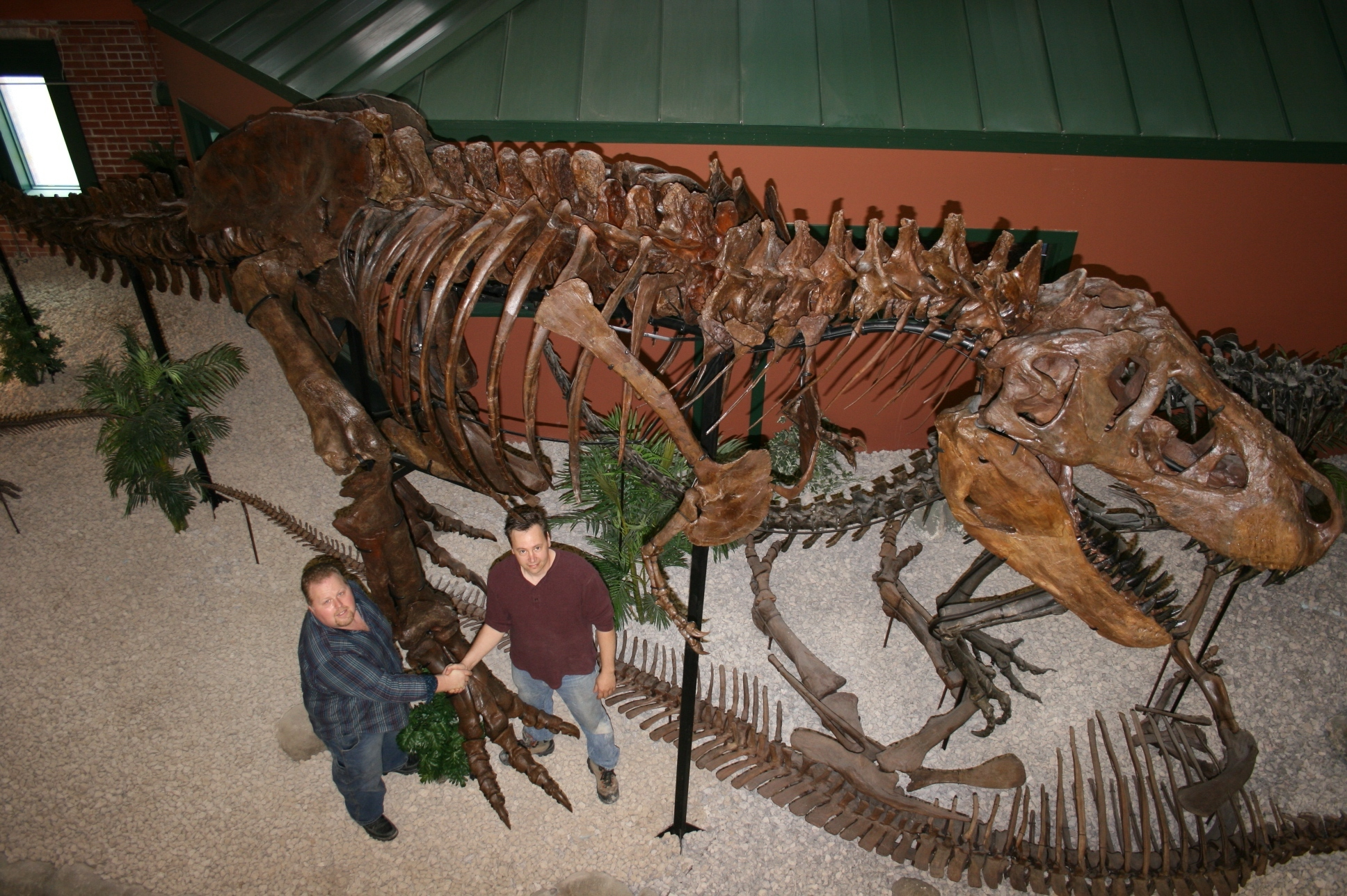 Picture of Ivan, the T. rex upon completion of installation.